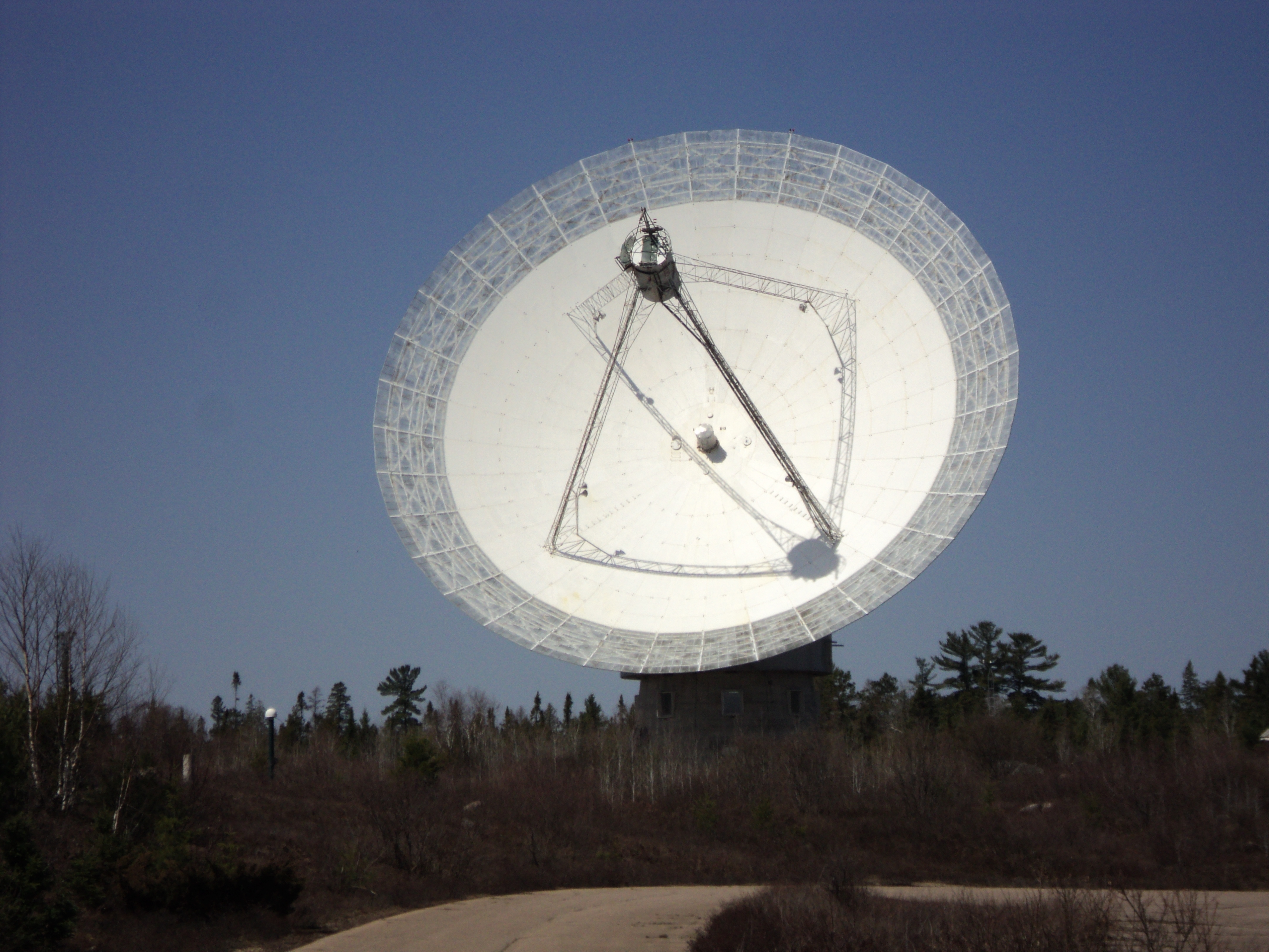 The 46m (150ft) Thoth telescope is the largest fully steerable antenna in Canada.